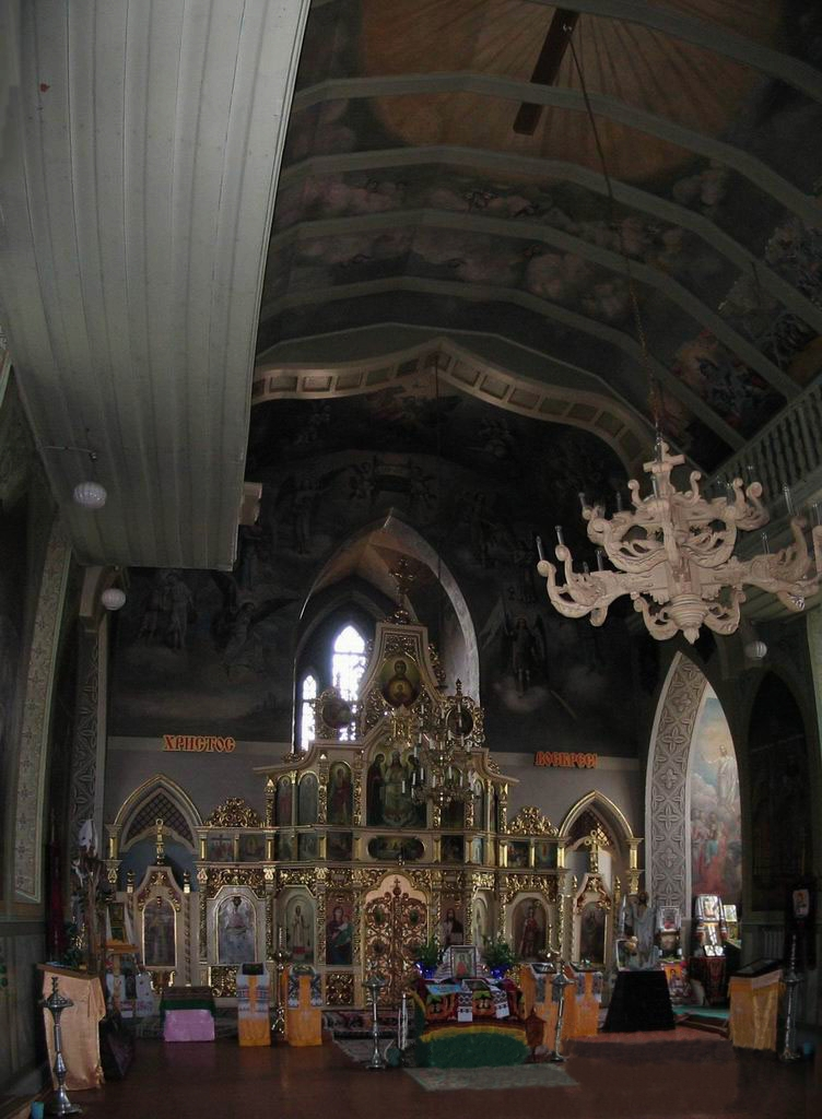 The interiour of the Mykhailivska Church in Horodysche, Ukraine.